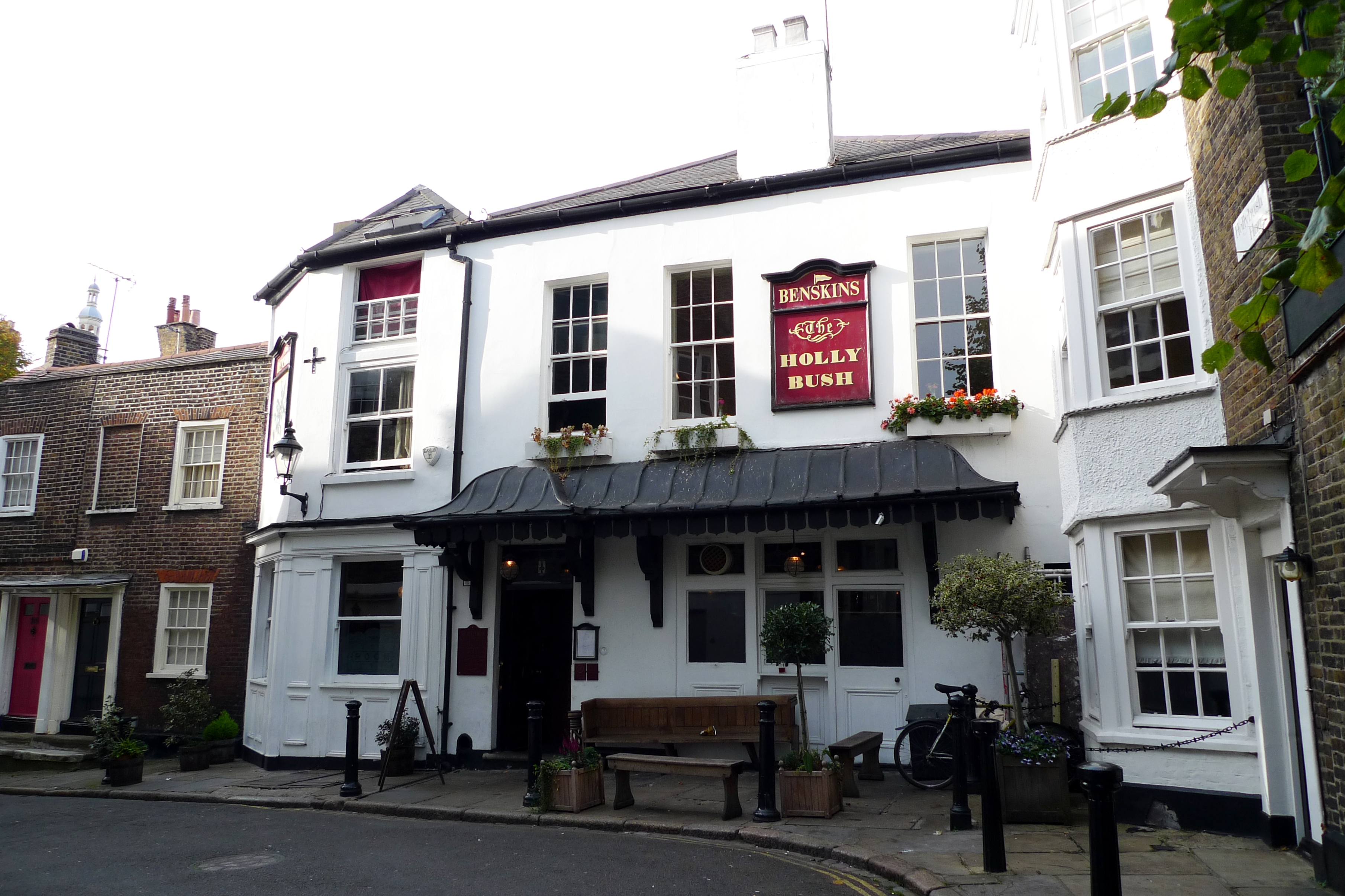 A very decent pub indeed, does good food and good beer too, with lots of little rooms. As of Jan 2010 it has been bought by Fuller's. (View of pub sign.) (Views of interior: front room, rear room and rear side room.) (Photo of menu, Sep 2009.) Address: 22 Holly Mount. Owner: Fuller Smith Turner (website); Punch Taverns (former); Ind Coope (former); Benskins (former). Links: Randomness Guide to London Fancyapint Pubs Galore Beer in the Evening Qype